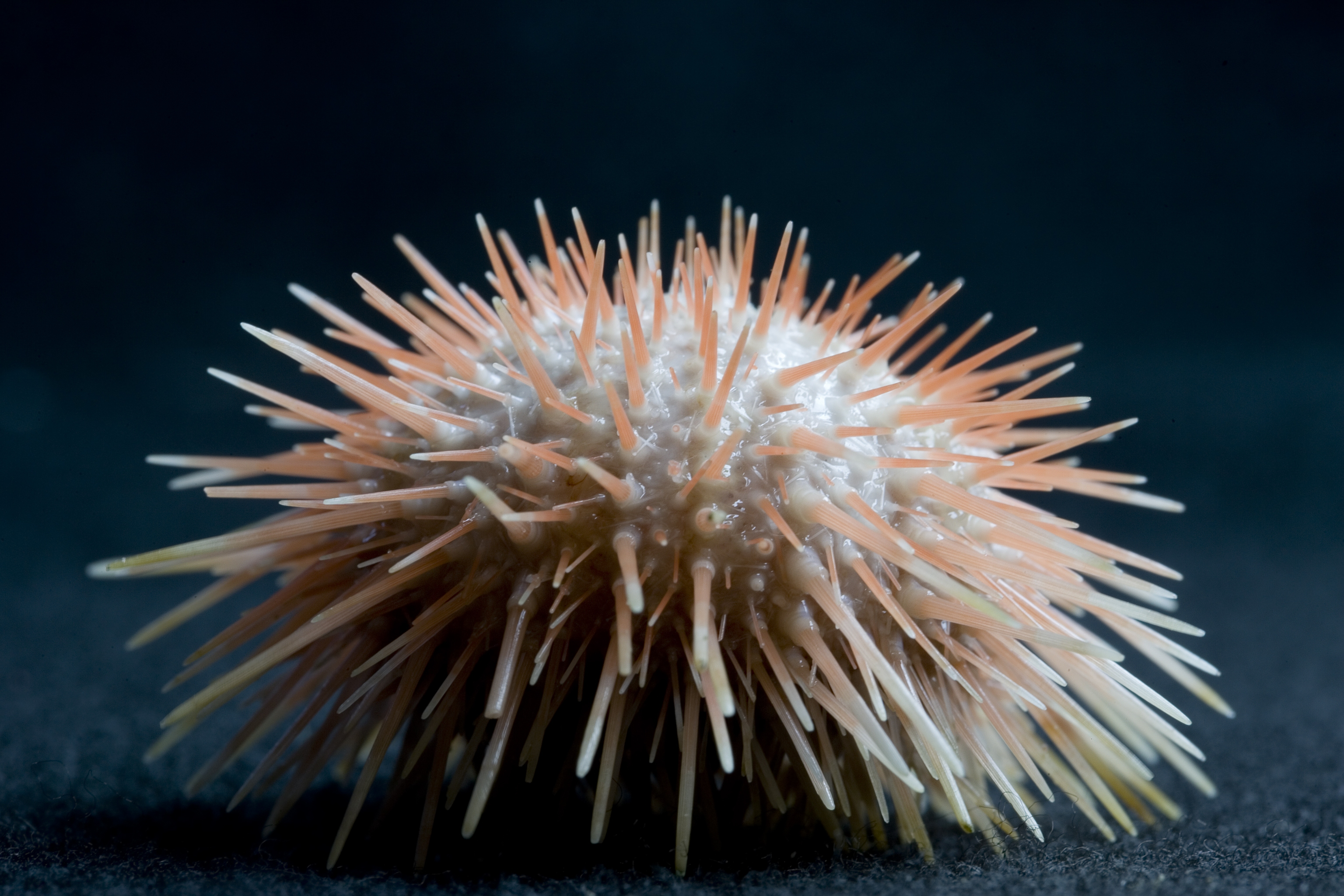 Echinus tylodes. This sea urchin is a common member of the deep coral community . It often occurs sitting on the coral branches or on coral rubble around the mounds. Life on the Edge 2005 Expedition. Offshore North Carolina. 2005 October 18.